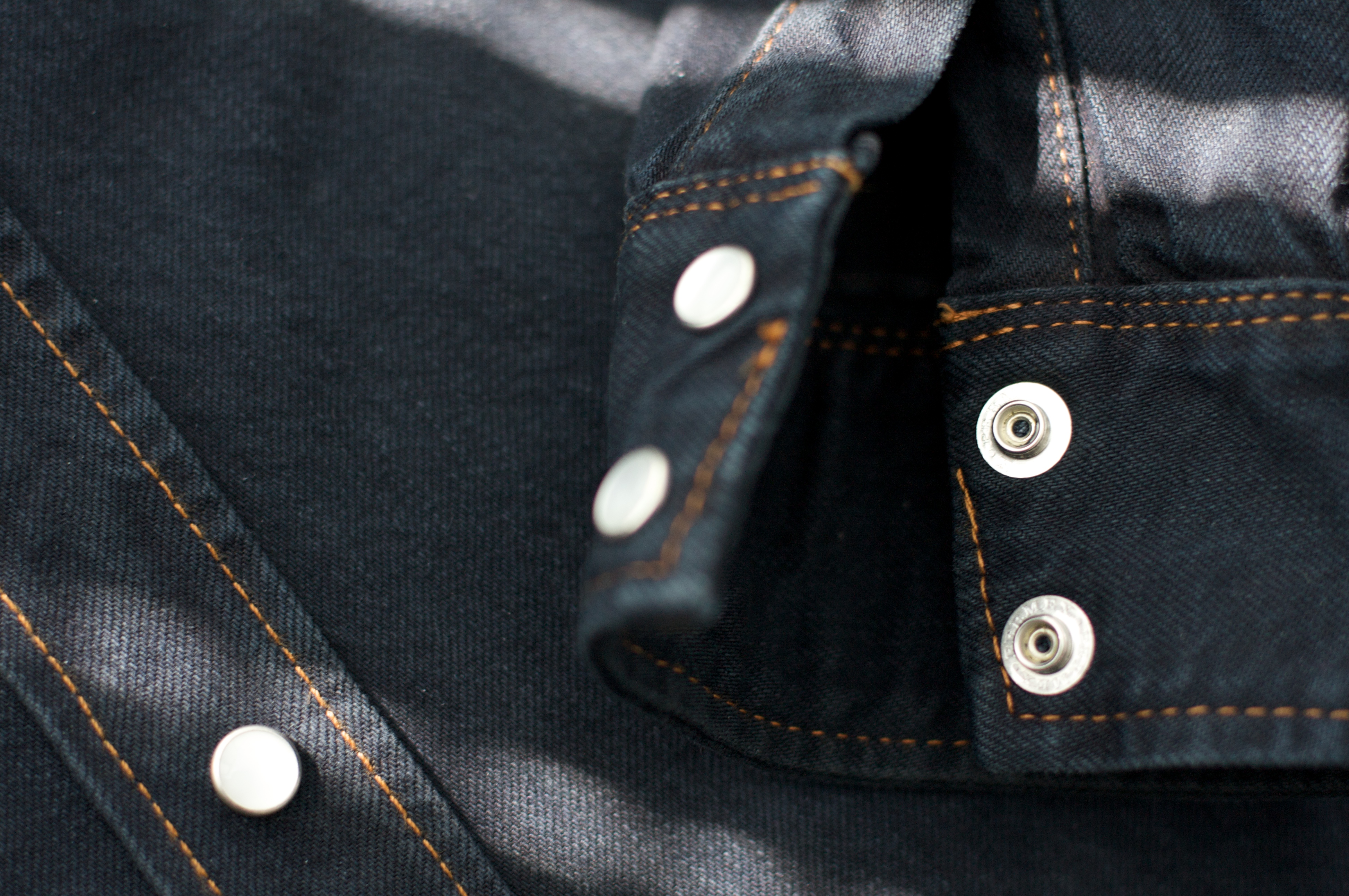 A denim jacket. 12oz selvedge denim overdyed with fugitive black pigment dye.